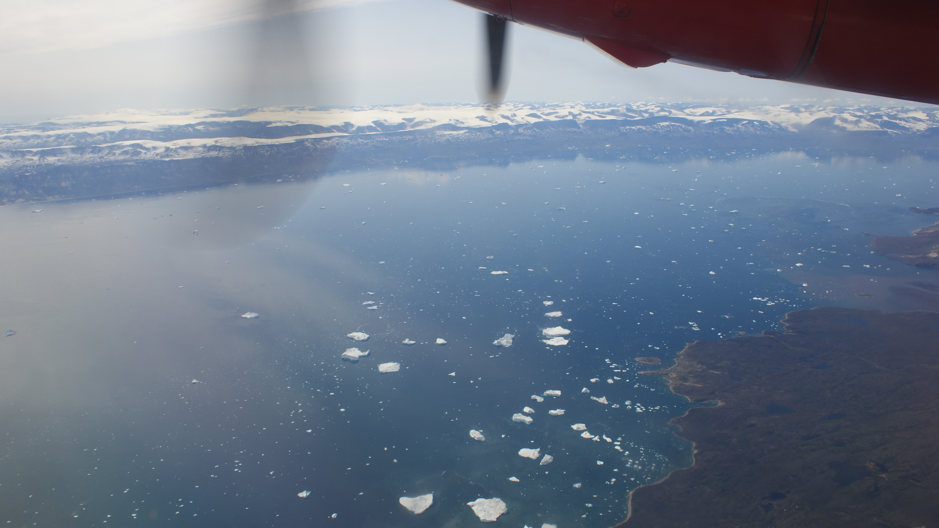 Sullorsuaq Strait, Greenland. Photographed from Air Greenland de Havilland Canada Dash-7 during the Qaarsut-Ilulissat flight.